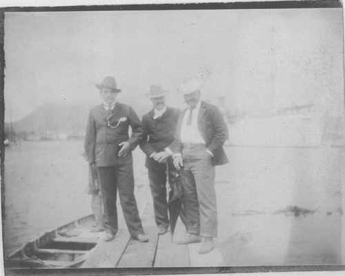 Prince Kuhio with with Prince Alexander Ariipaea Salmon of Tahiti (1855–1914), Honolulu Harbor.